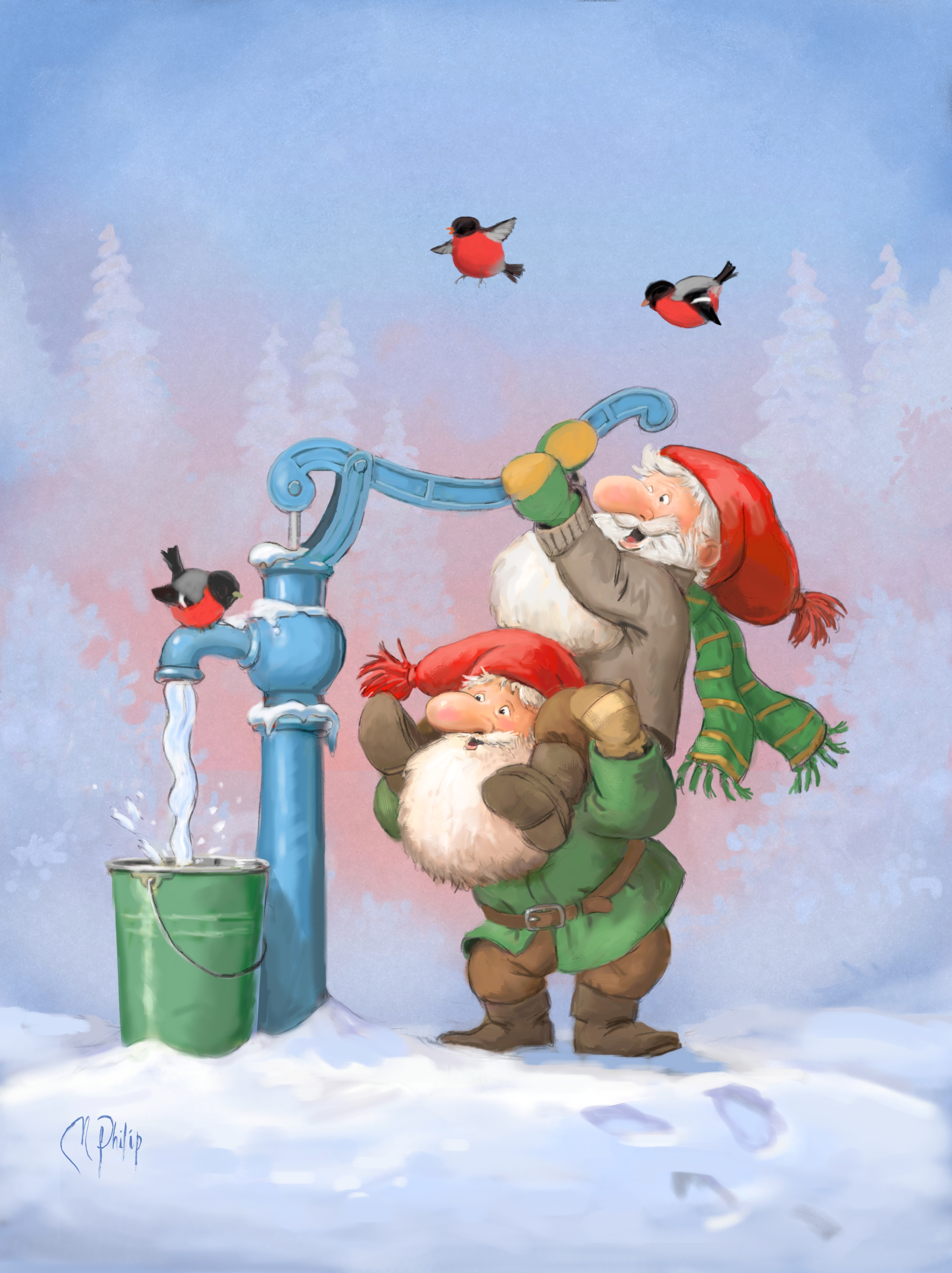 Swedish Chistmas card with two "tomtar" (Scandinavian gnomes).